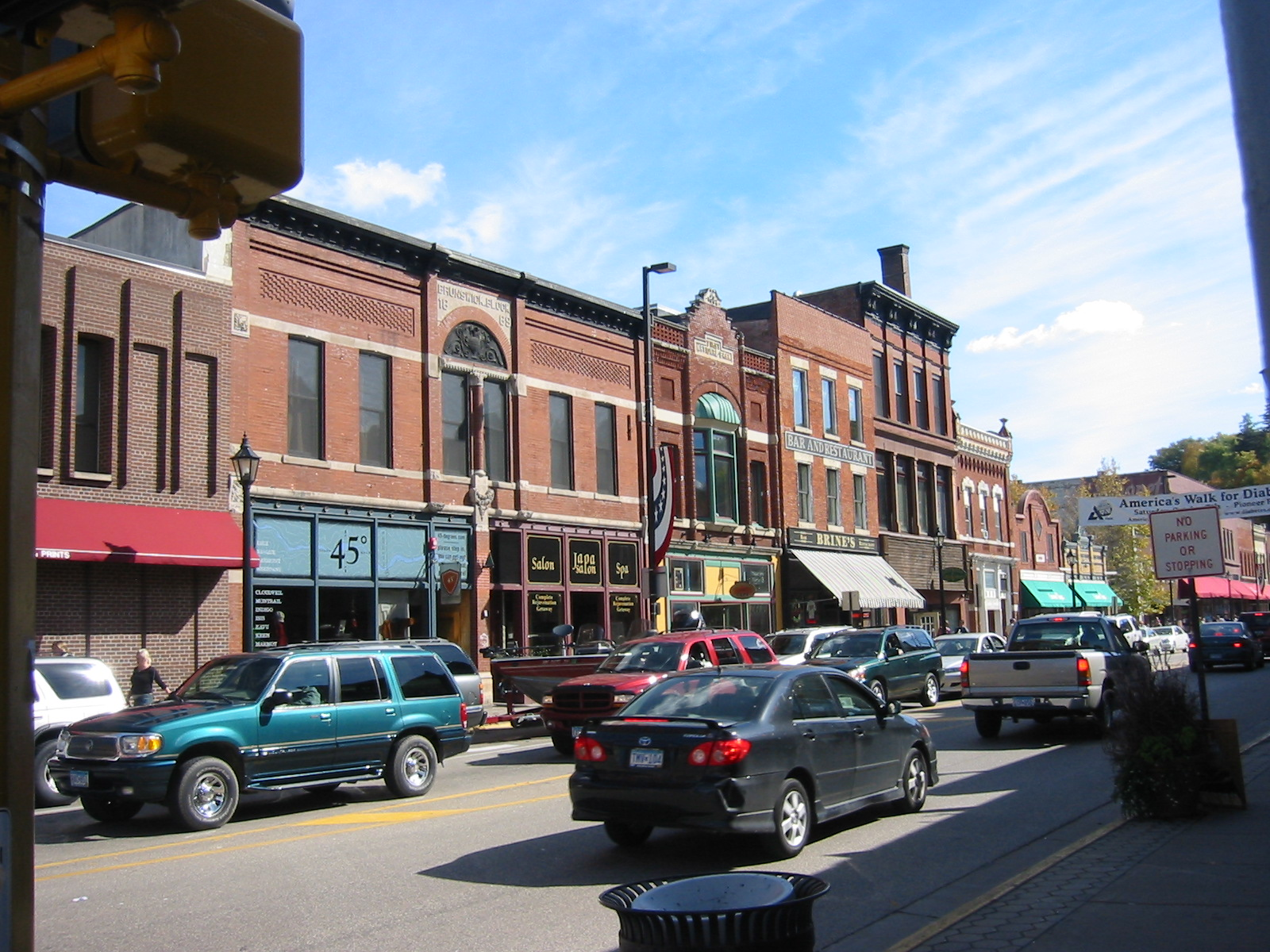 Downtown Stillwater, Minnesota. This is part of the Stillwater Commercial Historic District listed on the National Register of Historic Places.